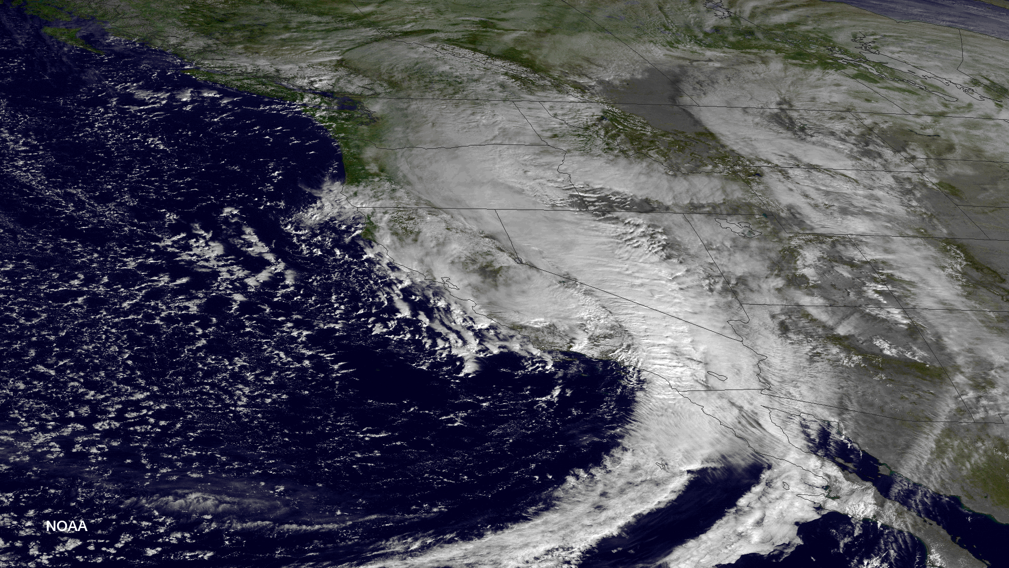 A storm impacts much of the drought-stricken Pacific coast of the United States. This image was taken by GOES West at 1830Z on December 12, 2014.